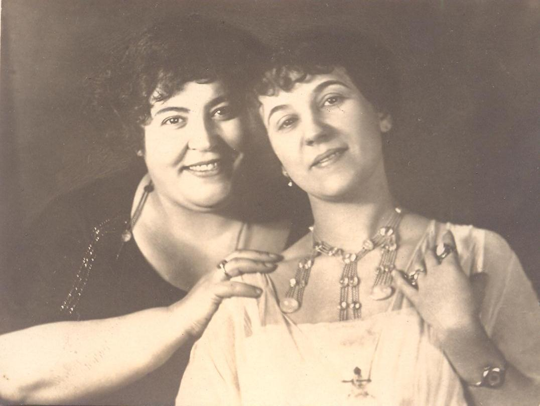 Bulgarian opera singer Hristina Morfova and pianist Lyudmila Prokopova